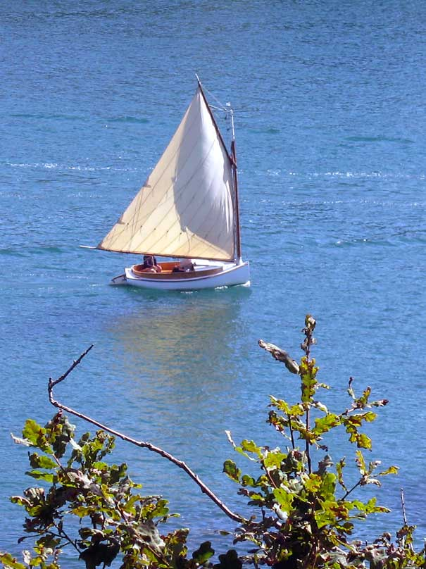 Catboat (USA) with gaff sail, Riec-sur-Belon.